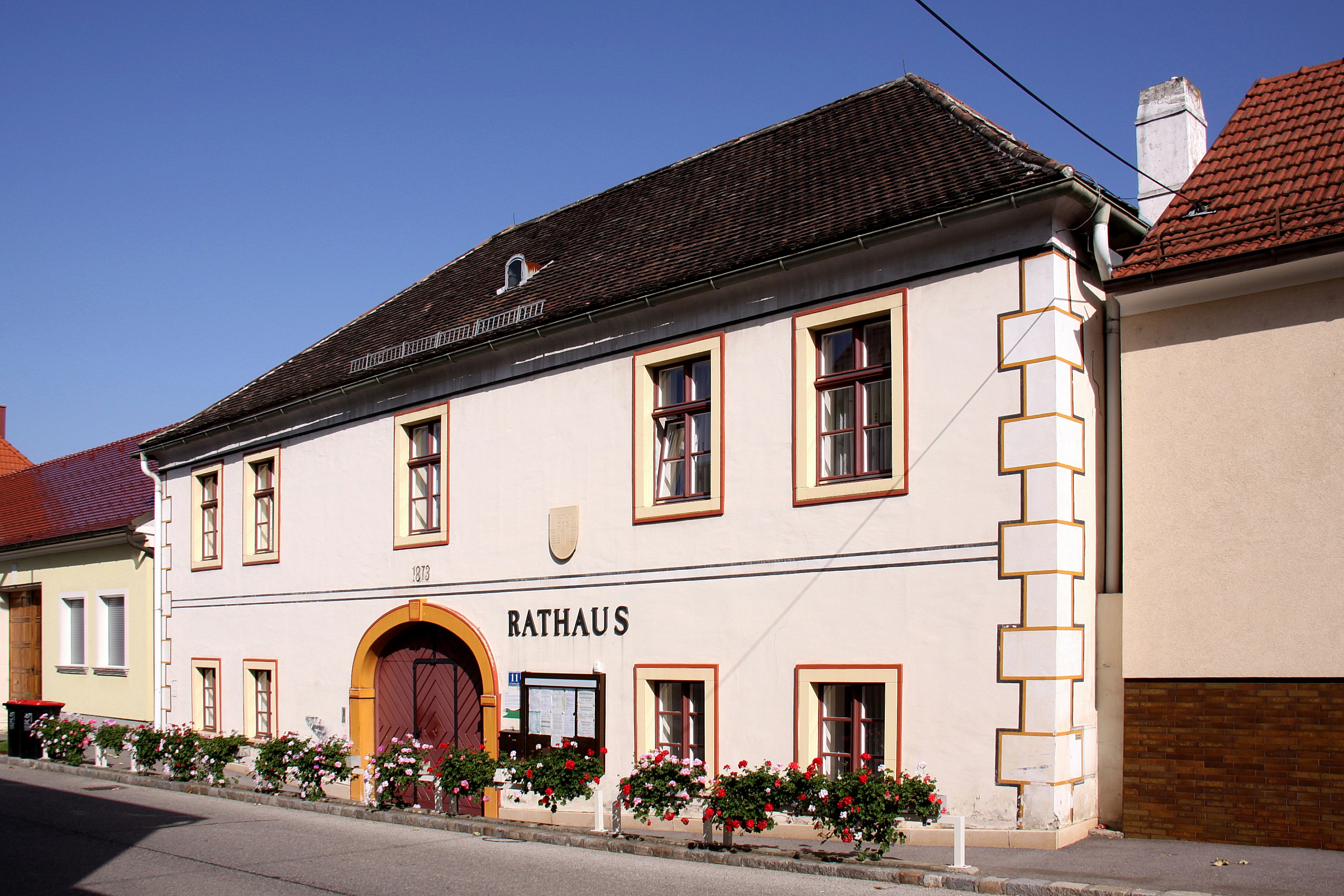 Municipal office - Marz Object location47° 42′ 56.82″ N, 16° 25′ 00.6″ E